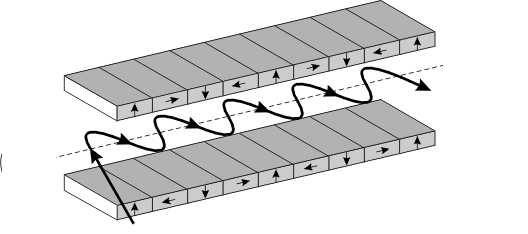 Halbach Undulator Diagram